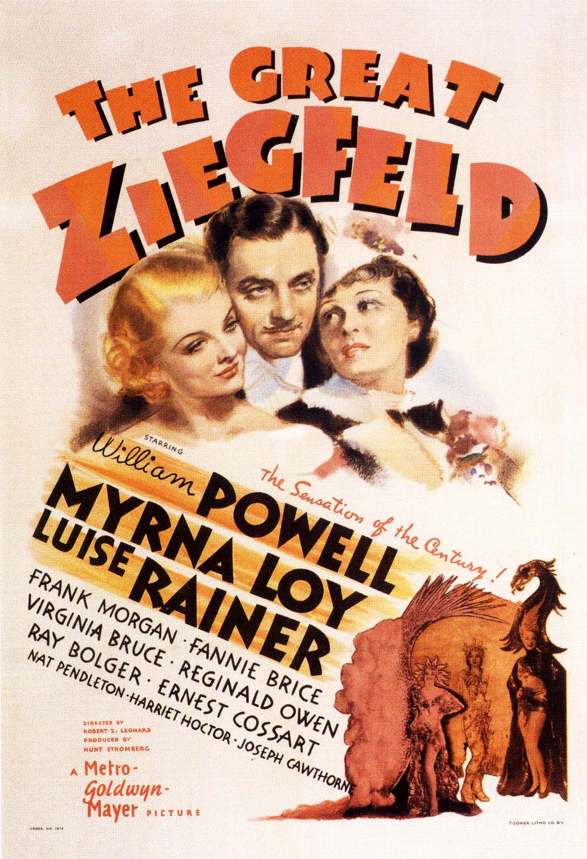 Movie poster from the 1936 film The Great Ziegfeld.